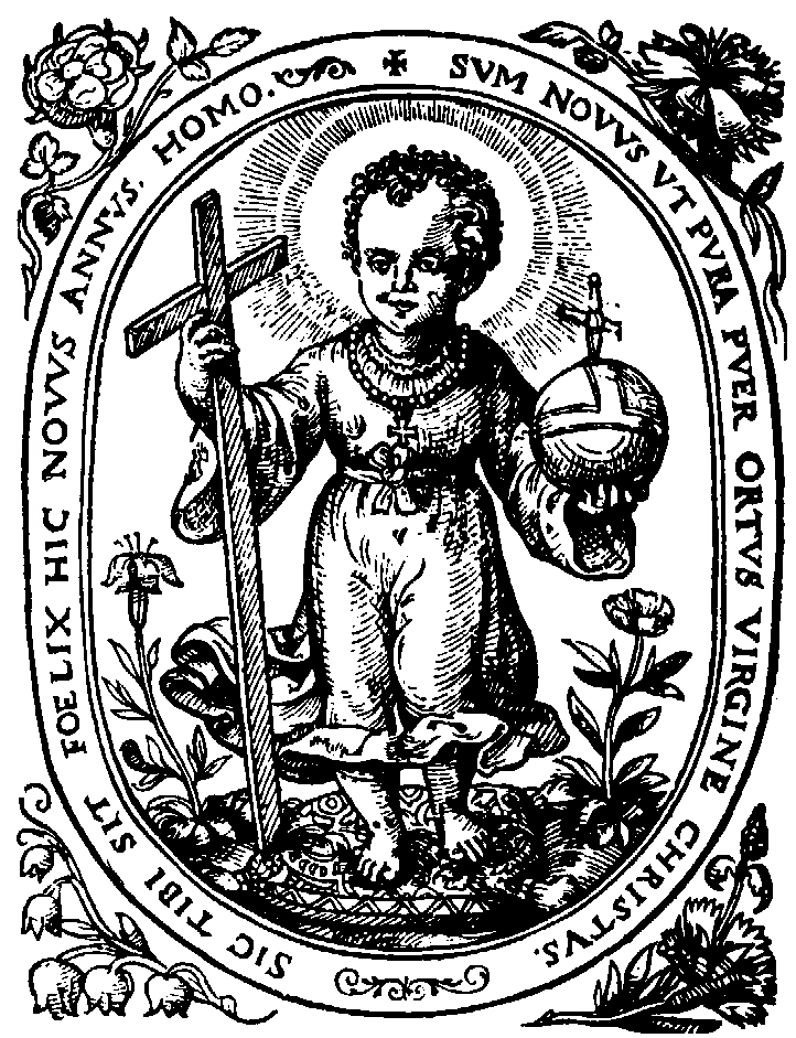 The inscription is a Latin elegaic couplet: sum novus ut pura puer ortus virgine Christus. Sic tibi sit foelix hic novus annus. homo. I am as new as Christ child born of a virgin pure, Mortal, may your new year be just as happy and sure.